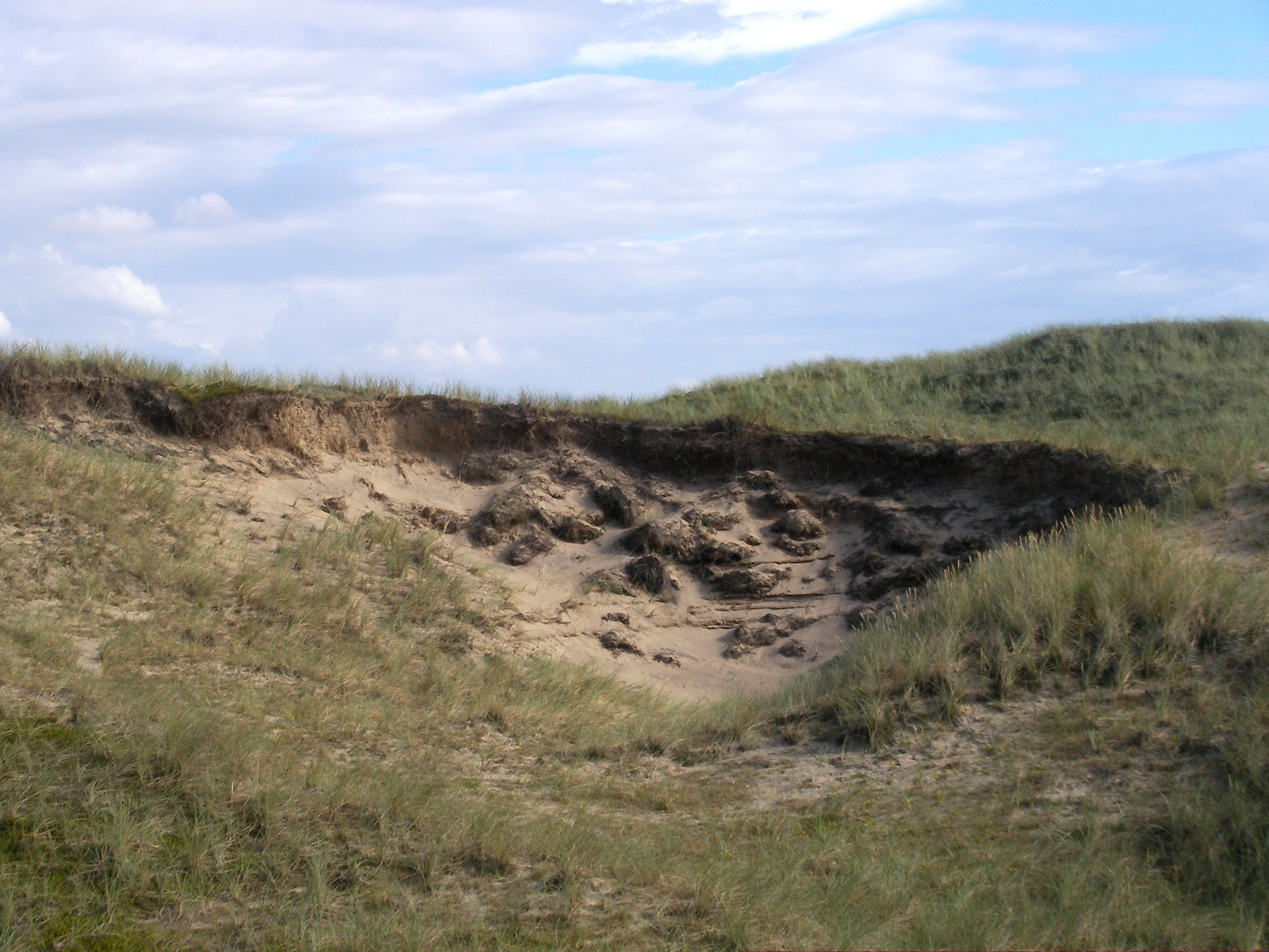 Dune with sandy Depression near Lodbjerg Fyr, Jylland, Denmark